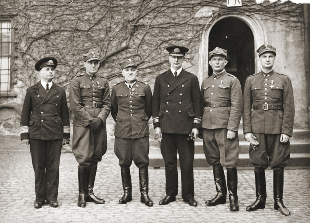 Polish officers in POW Camp of Coditz. From left : Rear Admiral Marian Majewski Colonel Władysław Smolarski General Tadeusz Piskor Admiral Józef Unrug Colonel Mieczysław Mozdyniewicz Colonel Antoni Trzaska-Durski